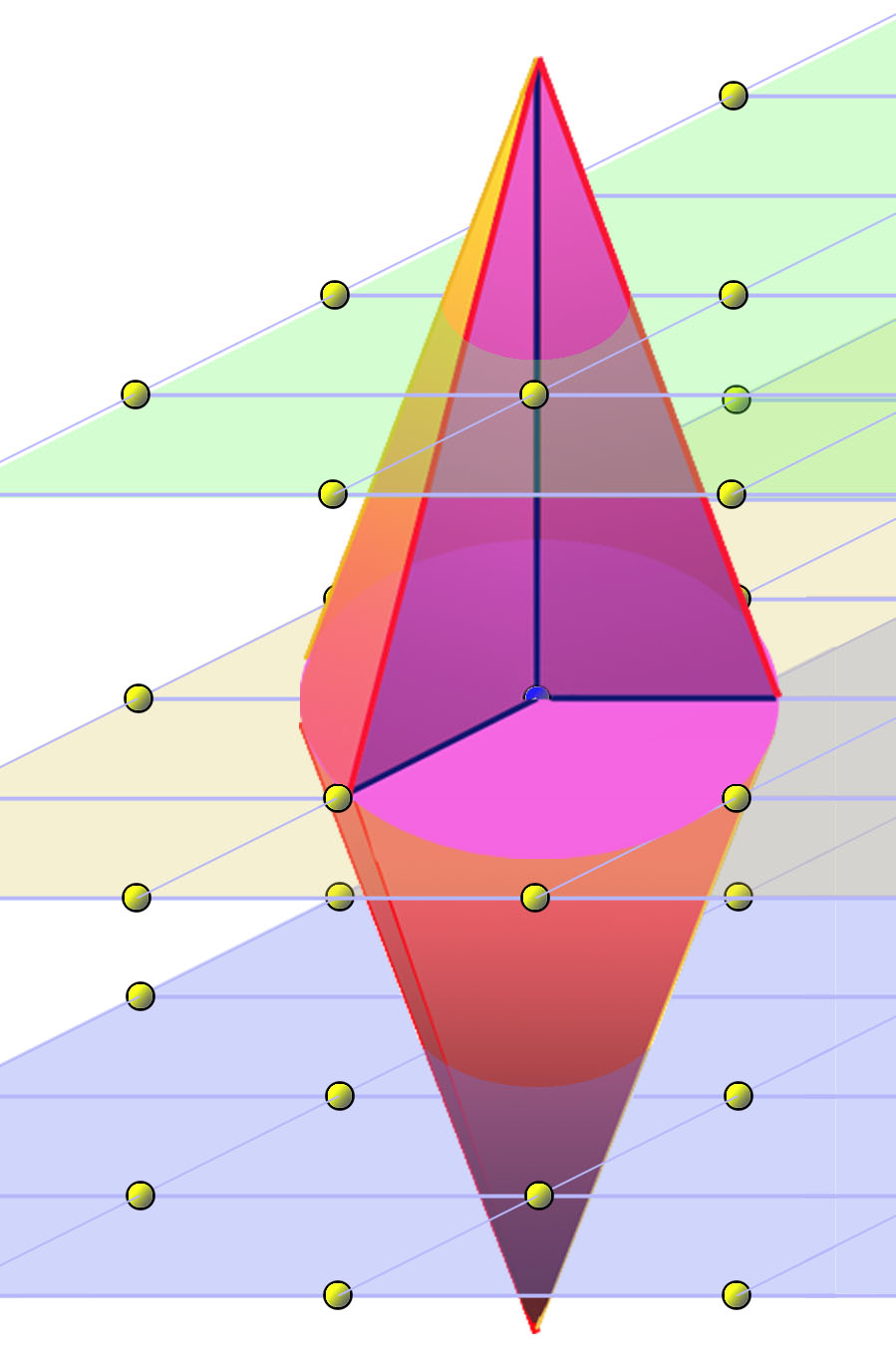 Minkowski's theorem's illustration, about geometrical arithmetics.